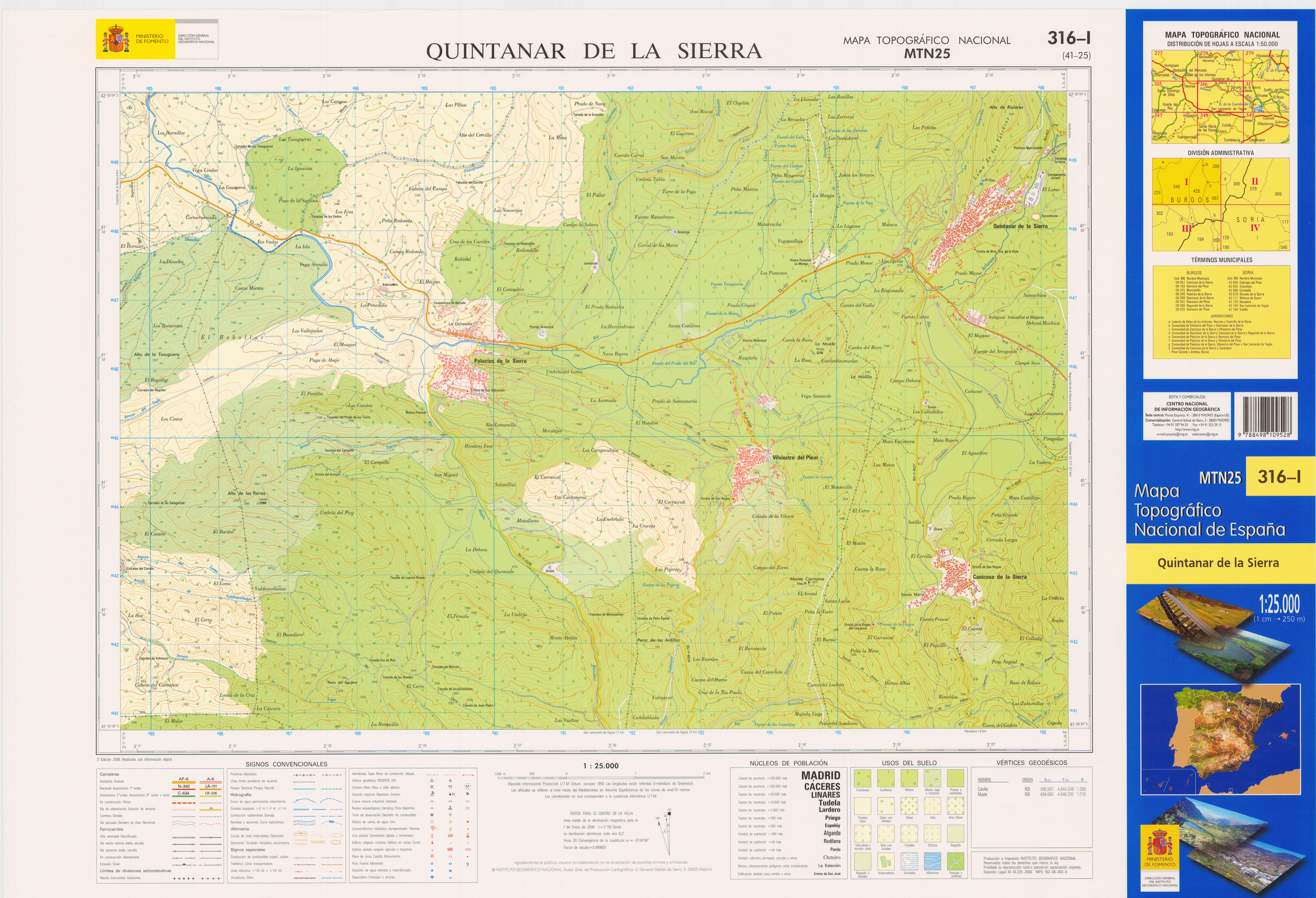 Fragment 0316c1 of the National Topographic Map of Spain in 2006 at a scale of 1:25000 printed and scanned with a resolution of 250 ppi. It shows Quintanar de la Sierra.